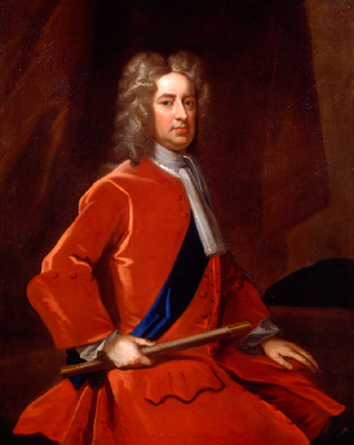 John Churchill, 1st Duke of Marlborough (1650-1722) Oil on canvass by Enoch Seeman (1690-1744)